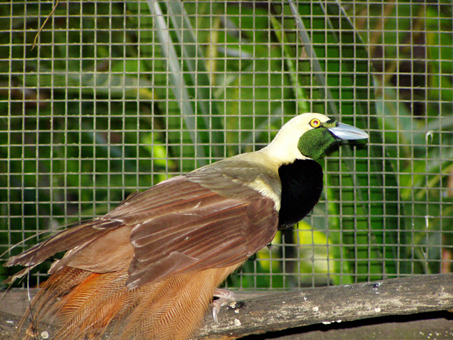 Adult Male Raggiana Bird of Paradise (Paradisaea raggiana). Body size, altitude, and diet account for 99.0% of the variation in the metabolic rates of birds of paradise.